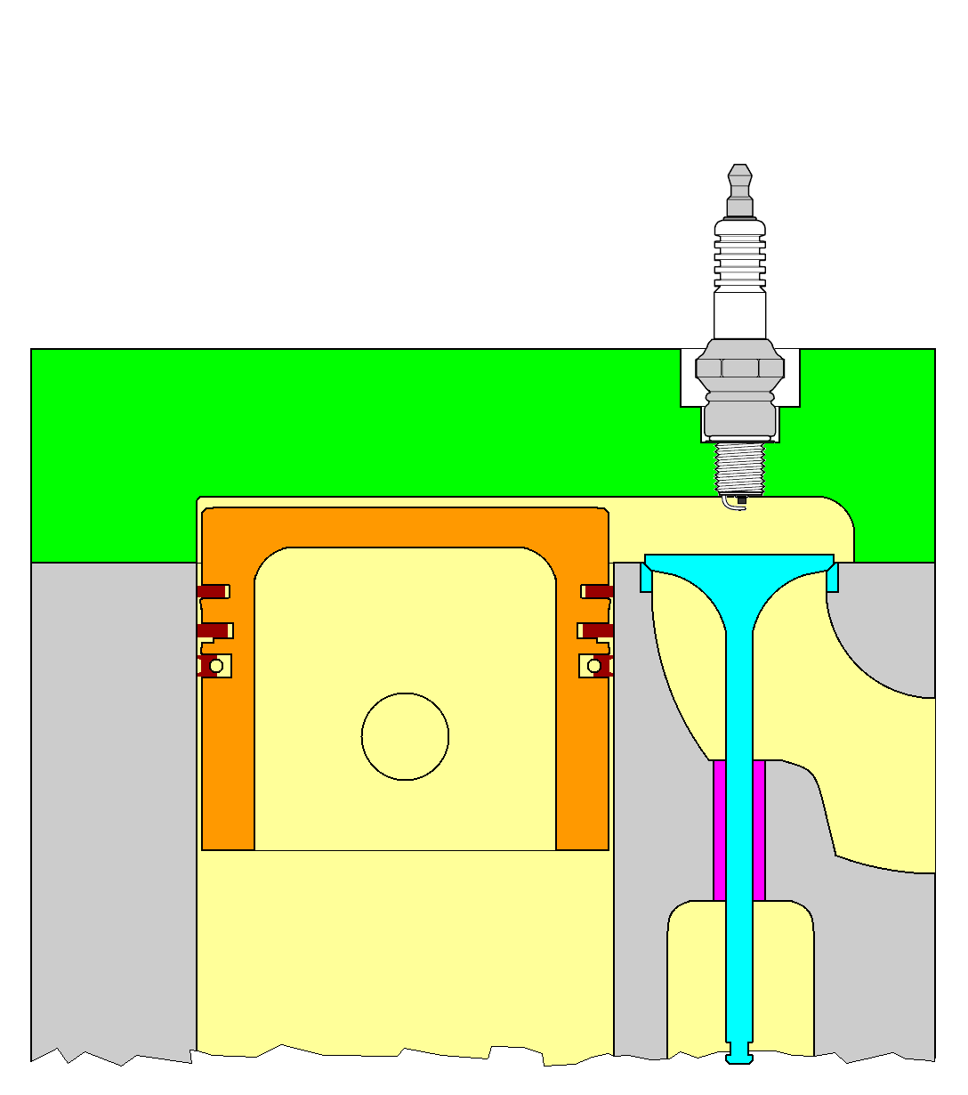 Simplified illustration of a side-valve engine with a common L-head valve arrangement and a pop-up piston.